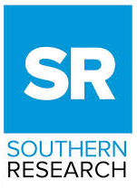 Southern Research logo